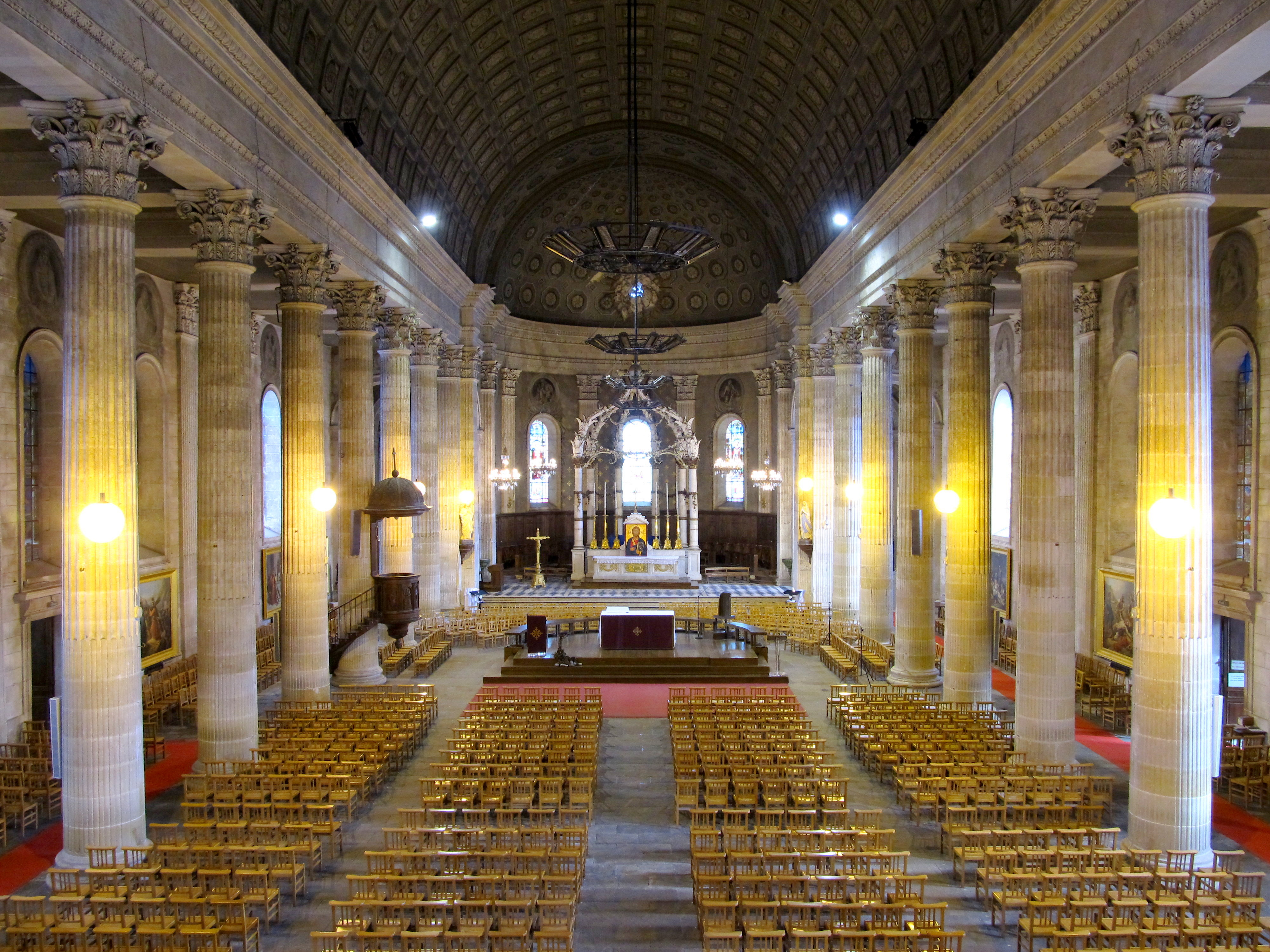 Saint Louis Church of La Roche-sur-Yon